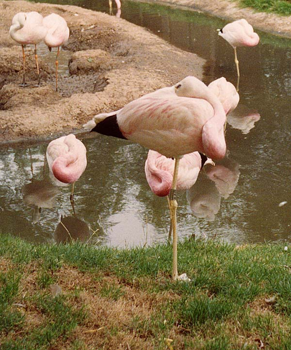 Flamingos asleep.